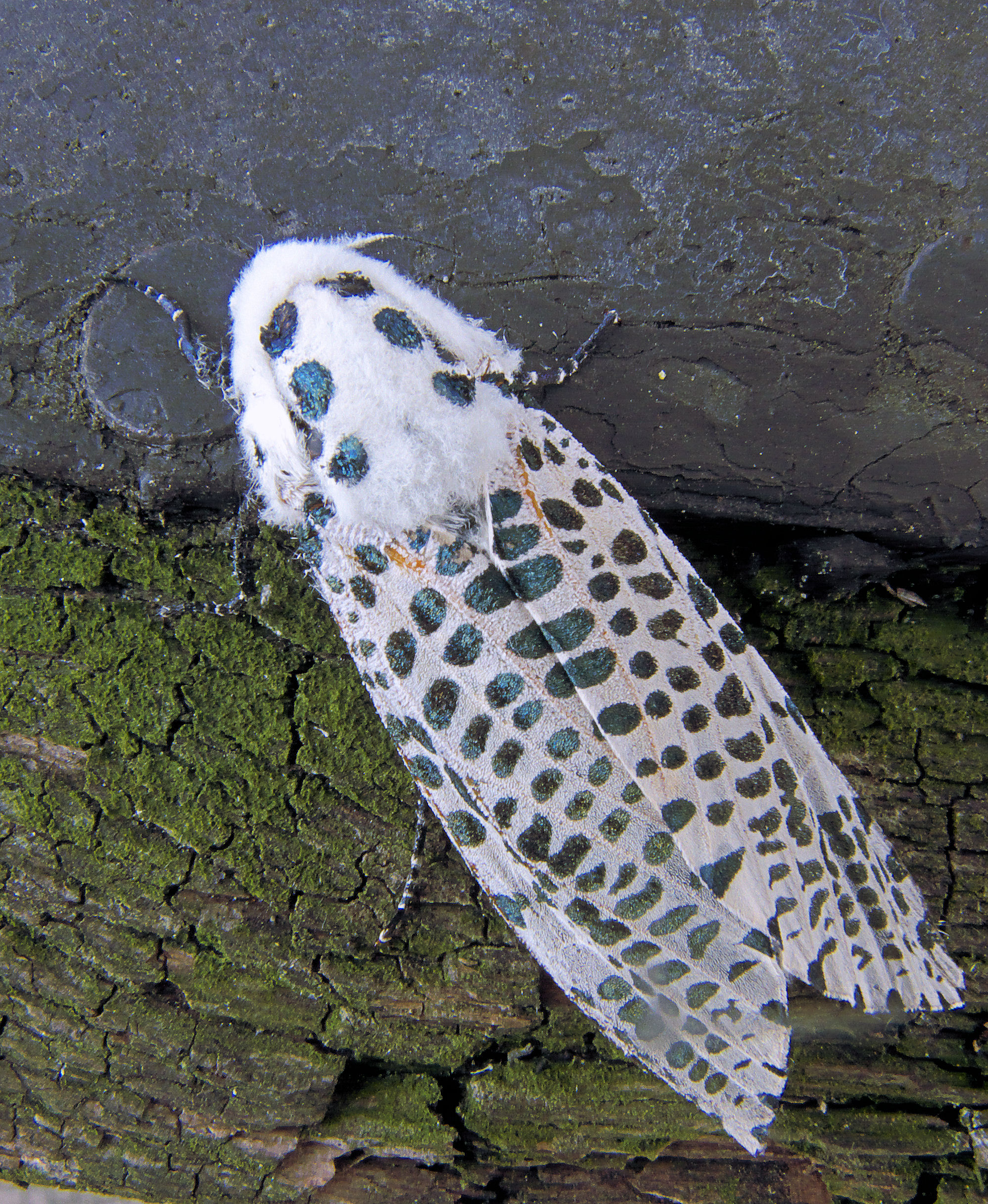 Zeuzera pyrina female